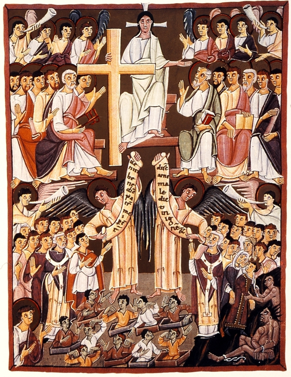 The Last Judgement